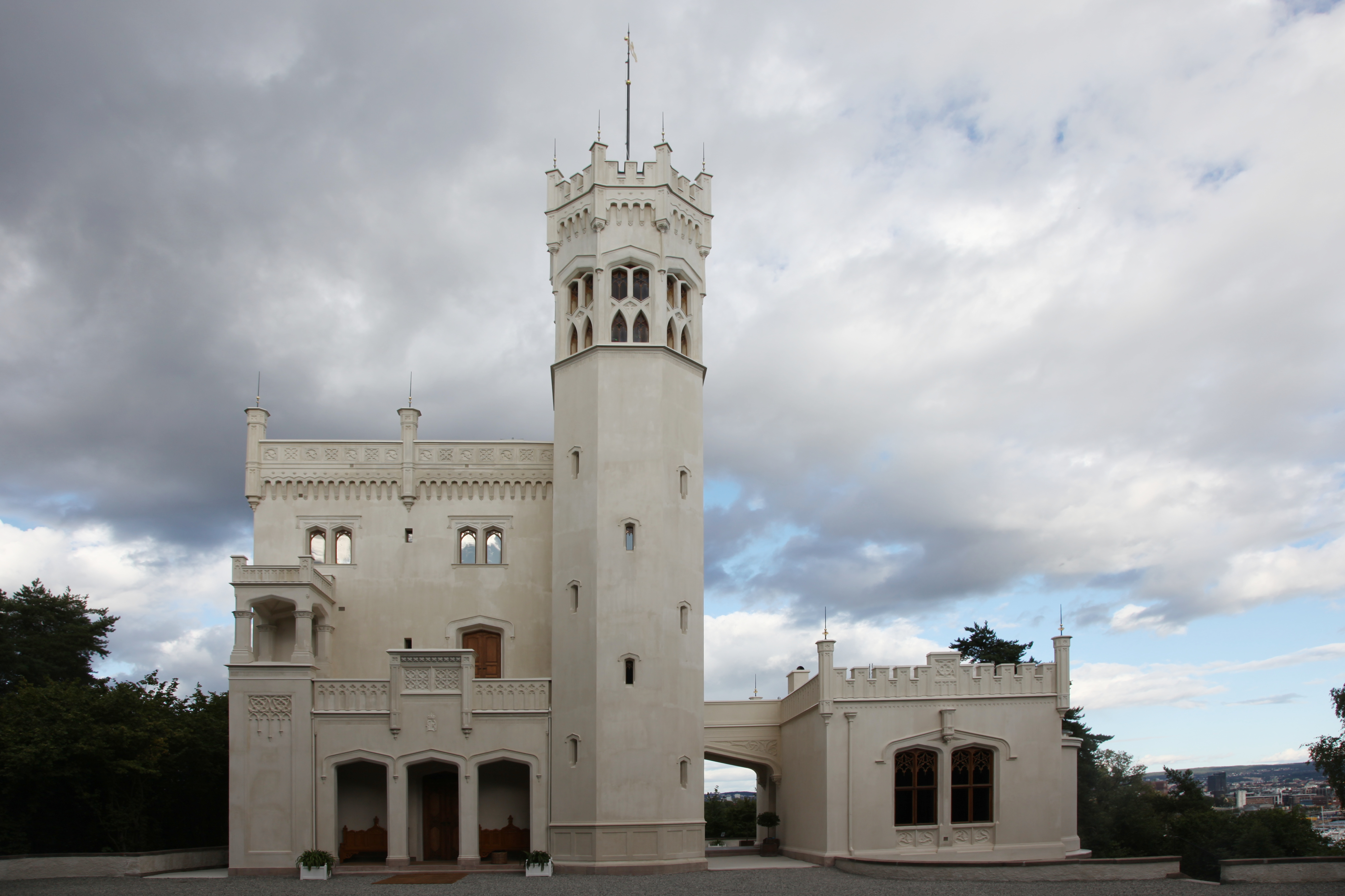 Oscarshall castle in Oslo. Newly restored using original white colour